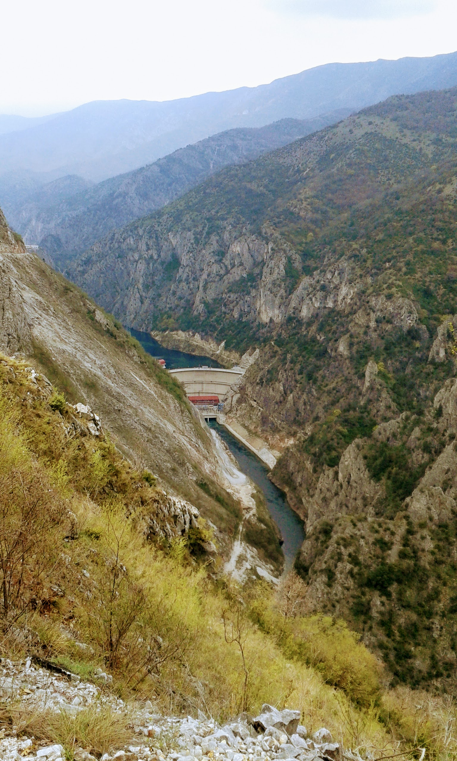 Part of our project Veloexpeditions in 2016